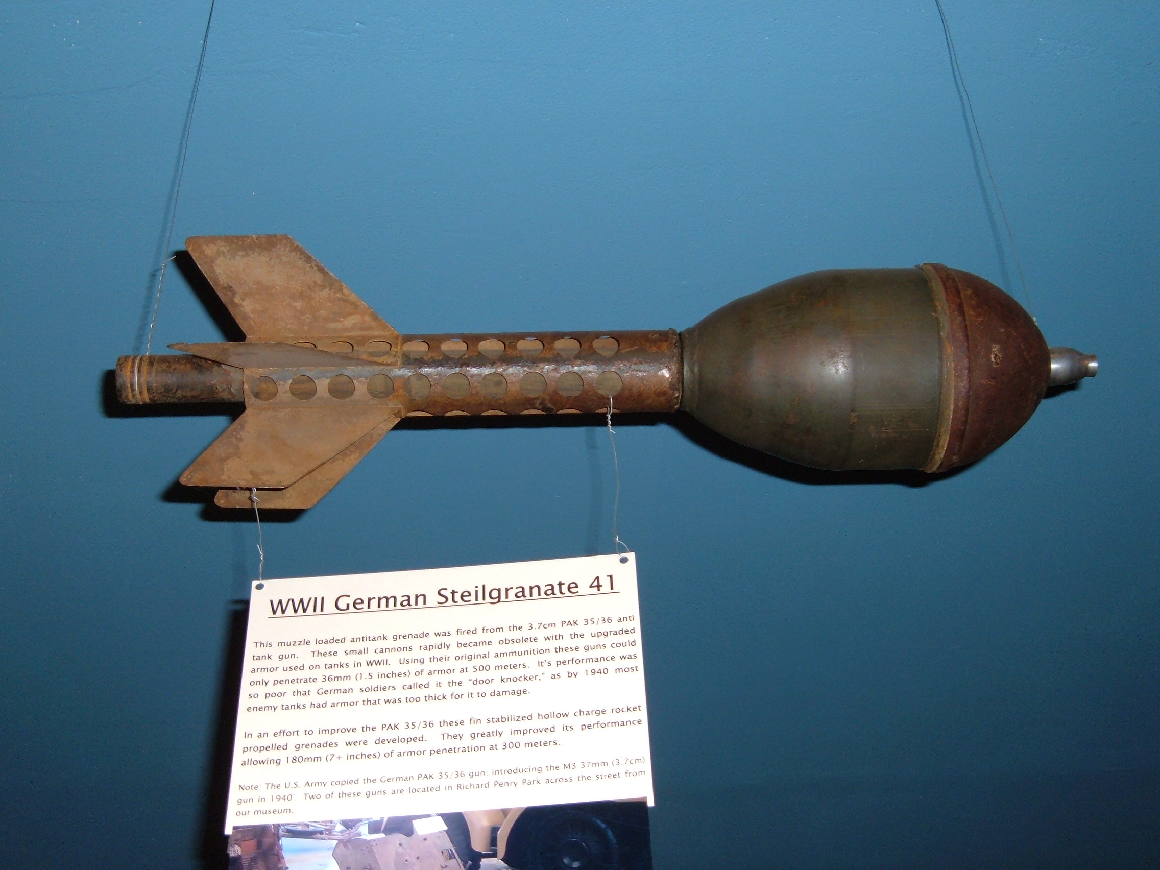 A Stielgranate 41, fired from the Pak 35/36 on display at the Sgt. Richard Penry Medal of Honor Memorial Military Museum in Petaluma, California. Typing error on description plate, must be Stielgranate instead of Steilgranate. (Stiel is german for handle/ shaft, steil means steep.)